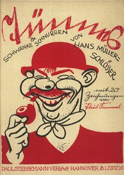 The title: Tünnes is written in the nearly forgotten German Kurrent.